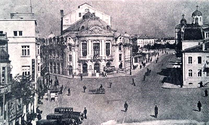 Varna. Photos of "Musala" square looking towards the cathedral and the theatre.